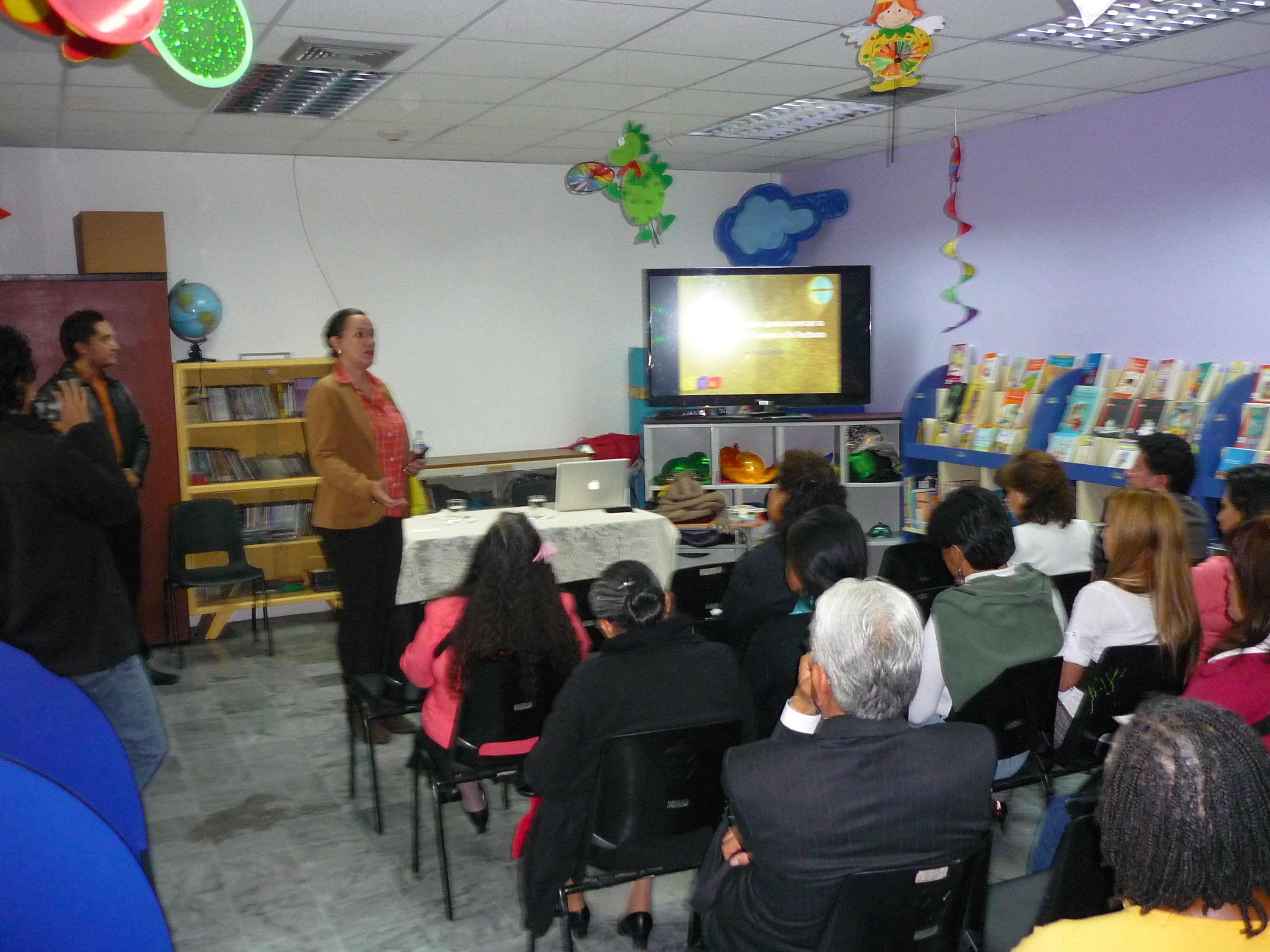 Veronica Bonilla giving a lecture.